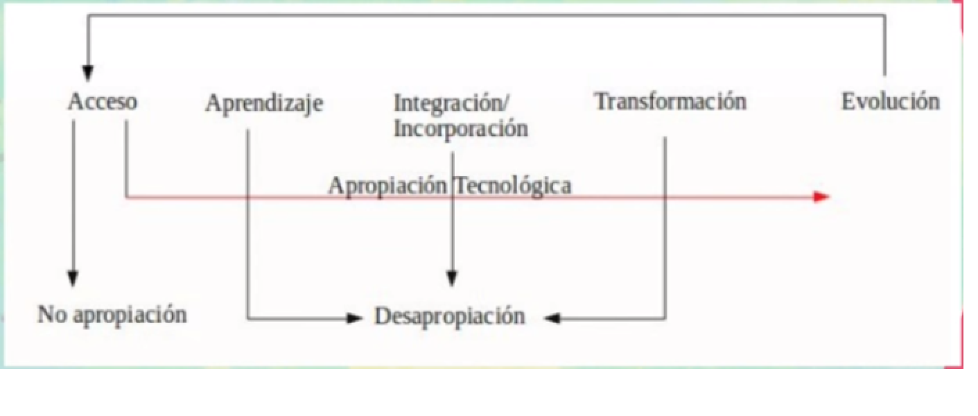 apropiacion tecnologica